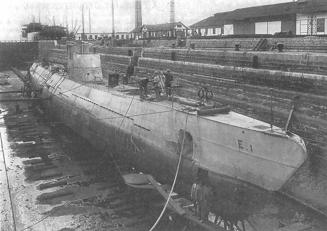 Submarine E-1 made in Spain in 1929-30 year by project of dutch Ingenieurskantoor voor Scheepsbouw (IvS) (founded by 4 German ship building yards: AG Vulkan yard (Hamburg and Stettin), two Krupp-owned yards, Germaniawerft (Kiel) and AG Weser (Bremen), prototype of soviet u-boats type "C" ( "Средняя") "S" ( "Srednaya") (Middle) Submarino E-1 contruido en los Astilleros Echevarrieta y Larrinaga, Cádiz, España en 1929-30. proyecto alemán desarrollado en los astilleros holandeses Ingenieurskantoor voor Scheepsbouw